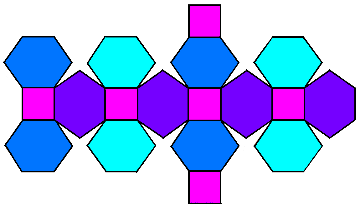 Four color Truncated_rhombic_dodecahedron net, with square and flattened hexagon faces.